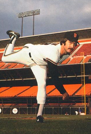 Professional baseball player Greg Minton